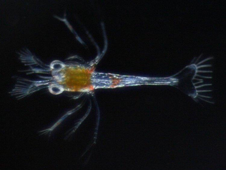 Larva of the shrimp Lysmata amboinensis on day 1 after hatching, referred to as zoea stage 1.